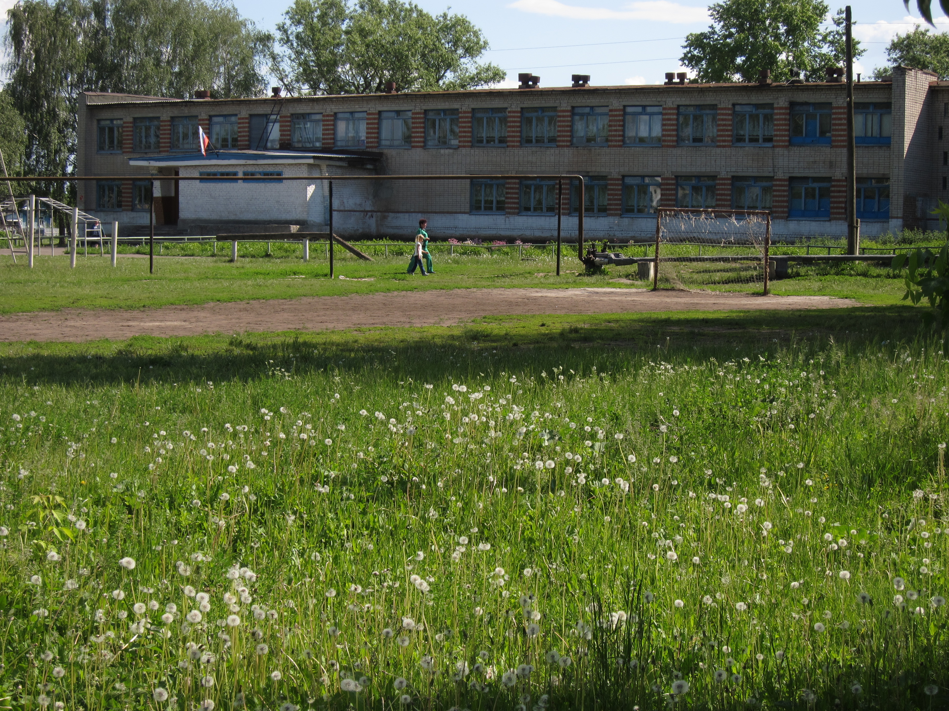 School in village Shatovka, Nizhny Novgordo Oblast.